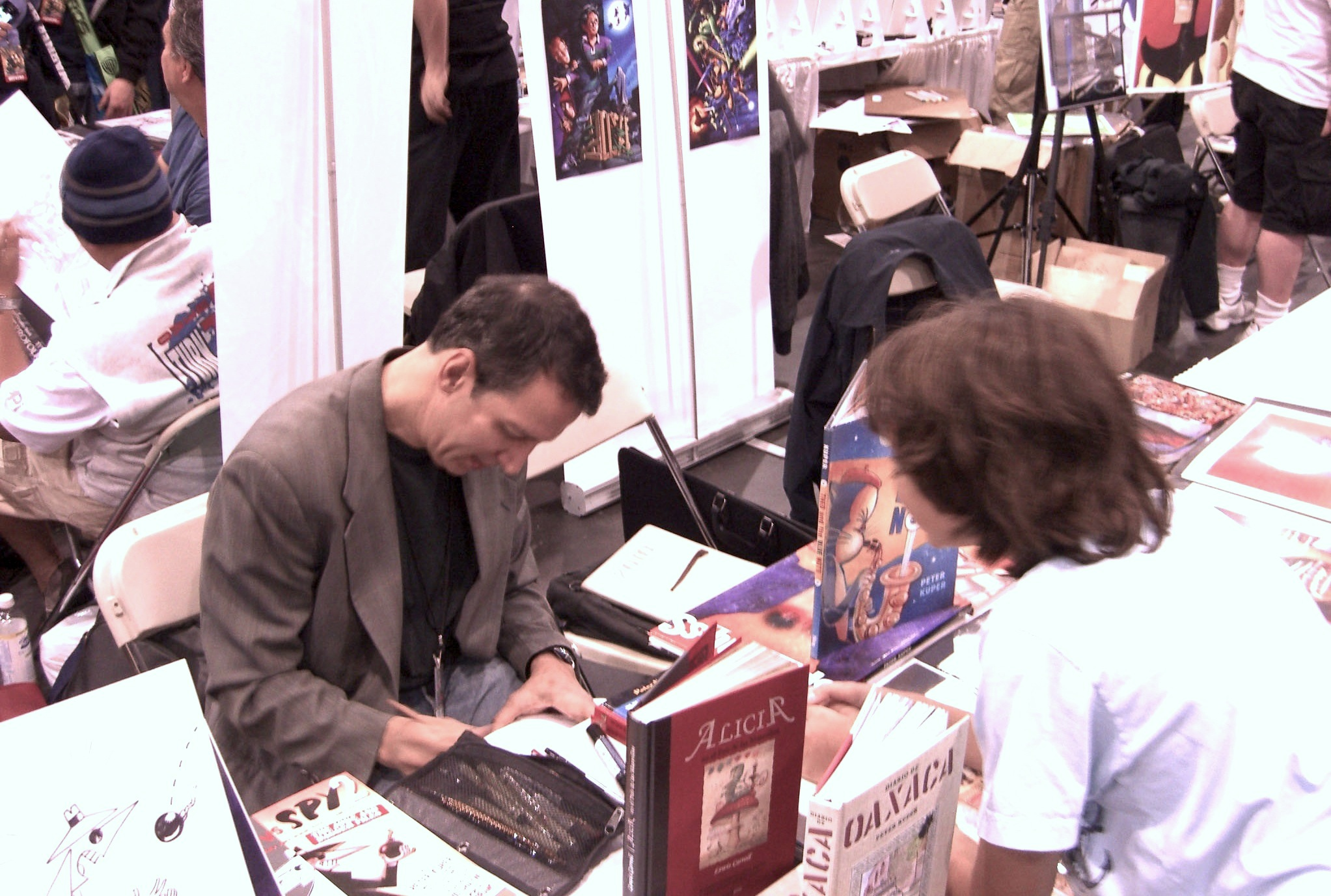 Comic book creator Peter Kuper, sketching at the New York Comic Convention in Manhattan, October 10, 2010. Photo by Luigi Novi. This photo may be used, modified and published for any purpose, only if a easily visible credit to the photographer is placed near the photo in each instance in which it is used. (See licensing information below.) Publication of this photo without this proper attribution constitute copyright infringement. For more information on my photos, you can contact me here.